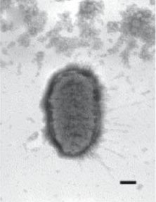 Electron micrograph of Proteus penneri